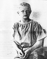 An image of the German classical art expert Maria Weigert Brendel as a child.